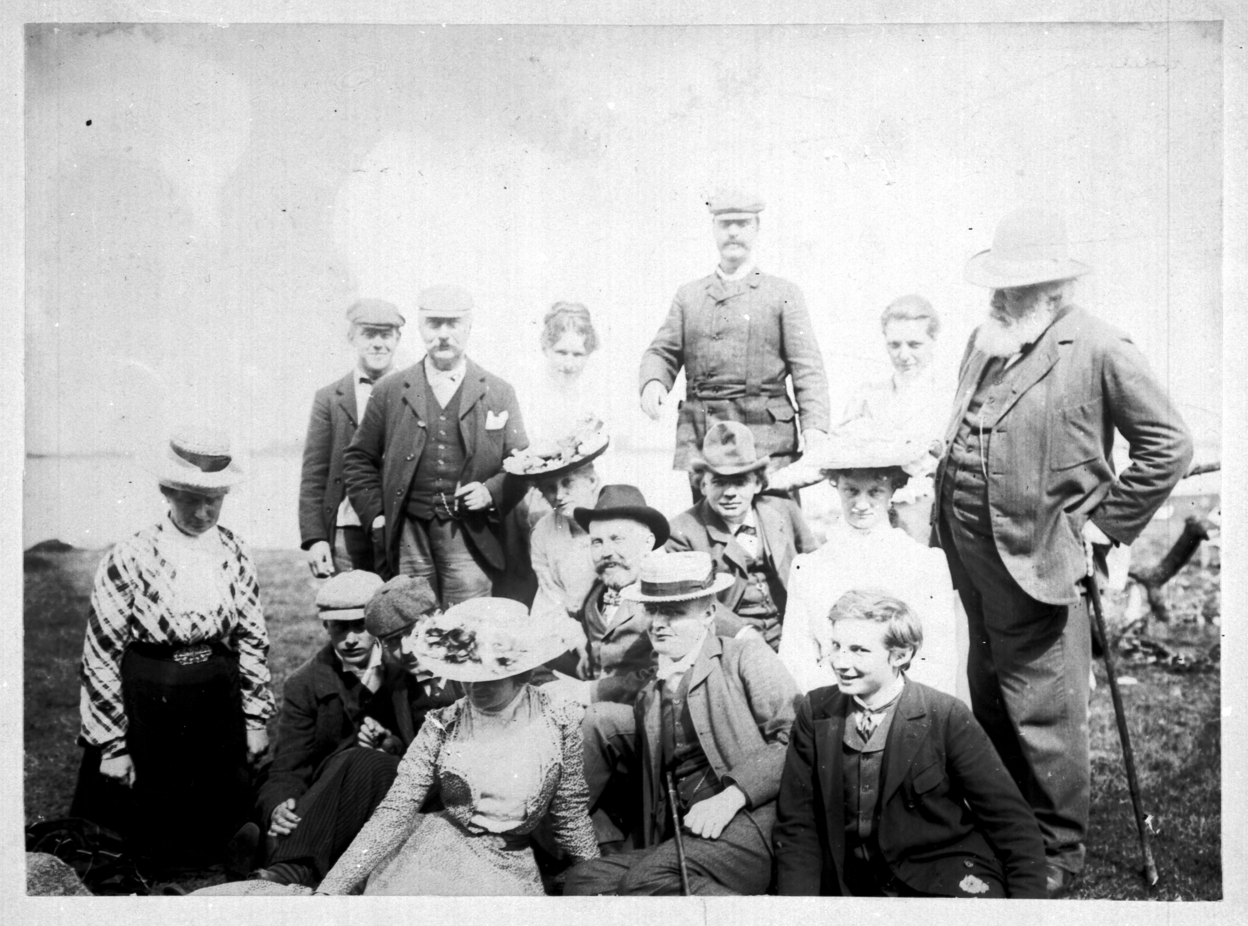 Artist: unknown Date/place: unknown Subject: Viggo and Bodil Neergaard with friends Medium: photographic positive, B&W Notes: none Persistent URL: [#//bergenbibliotek.no/digitale-samlinger//engelsk/-intro-eng” Original belongs to the Edvard Grieg Archives at Bergen Public Library] Original reference: EGM0106